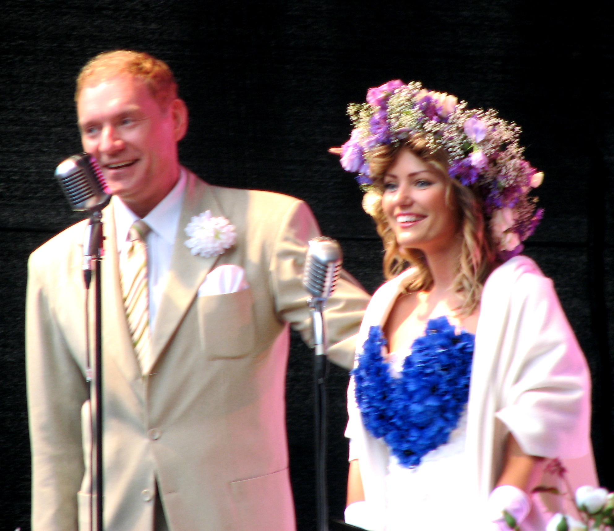 Mart Sander and Katrin Siska performing in Tallinn Old Town Days.